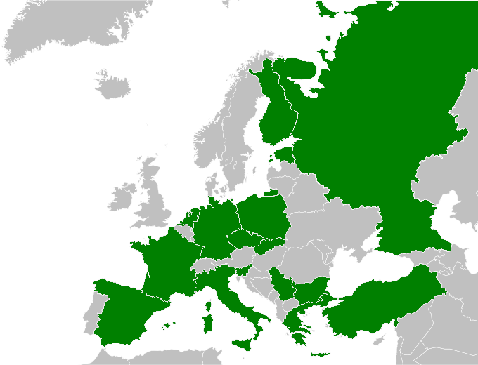 National teams which played in 2009 Men's European Volleyball Championship